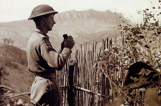 Battle of Monte Pulito aka Battle of San Marino